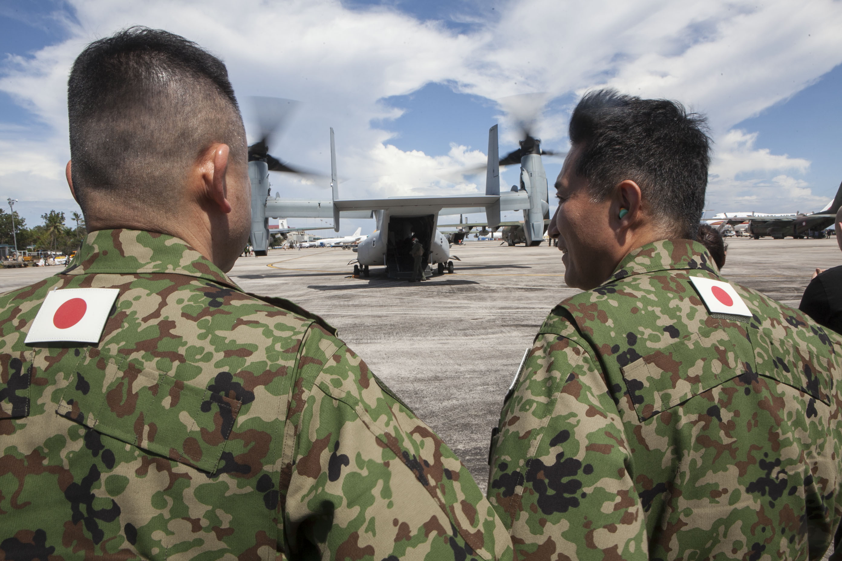 Japan Ground Self-Defense Force soldiers wait to board a U.S. Marine Corps MV-22B Osprey tiltrotor aircraft at Tacloban Air Base, Philippines, Nov. 14, 2013, during Operation Damayan. U.S. military forces were deployed to the Philippines to support humanitarian efforts in response to Typhoon Haiyan.